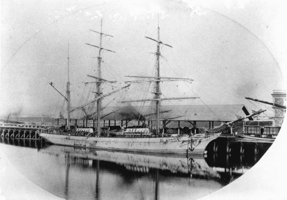 Osaka (ship) Built: 1869 Tonnage: 527 tons Length: 165 ft. Beam: 30 ft. 1 in. Draft: 17 ft. 2 in. Builder: Pile Owners: Killick Best known captain: Enright.[1] ↑ Lubbock, Basil (1921) The Colonial Clippers, Appendix A, British Tea Clippers (2nd ed.), Glasgow: James Brown & Son, p. iv OCLC: 1750412.